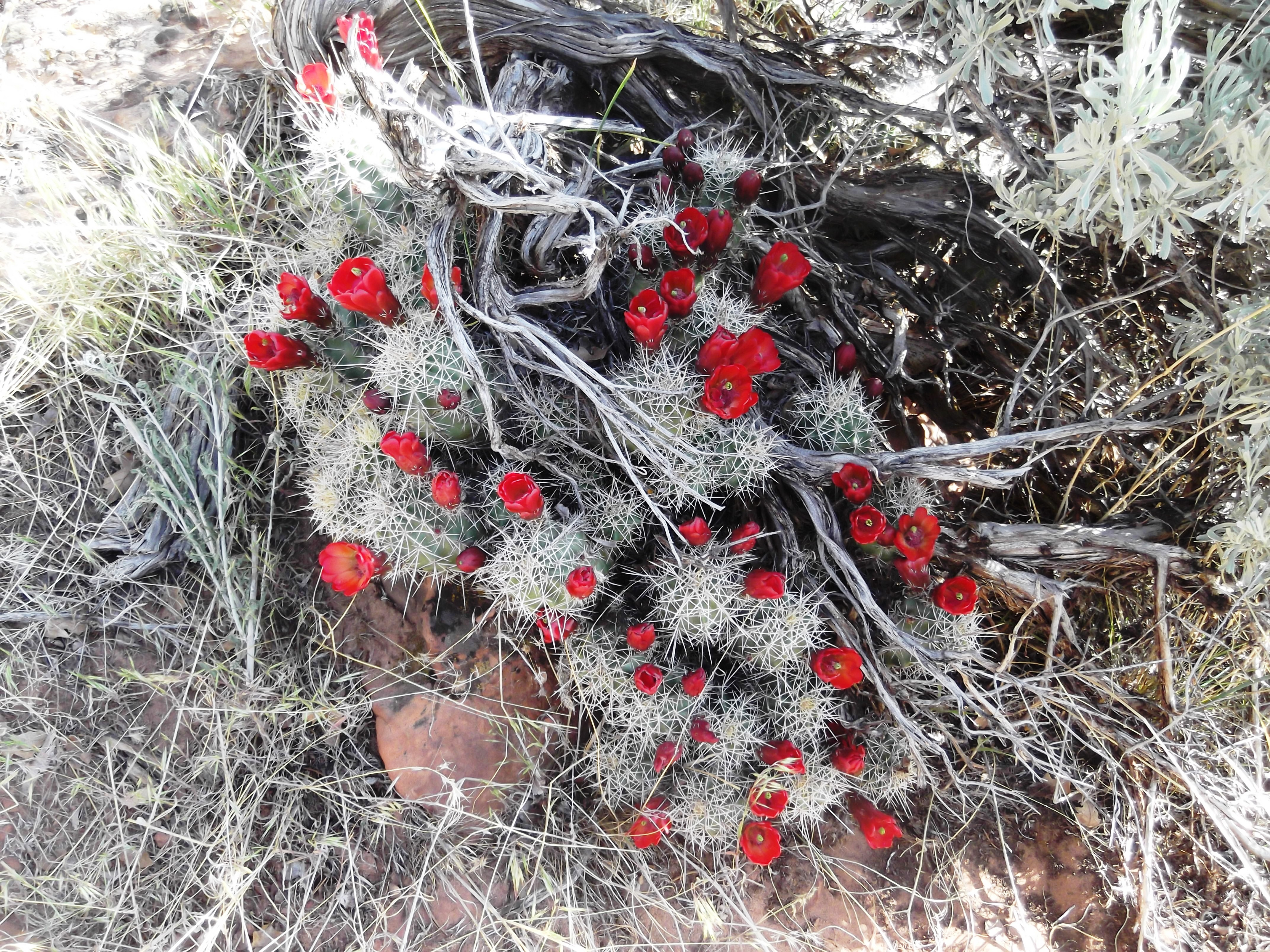 Claretcup Echinocereus triglochidiatus Pediocactus, Echinocereus and Echinopsis species are often called Hedgehog cactus, after the Hedgehog ut 043